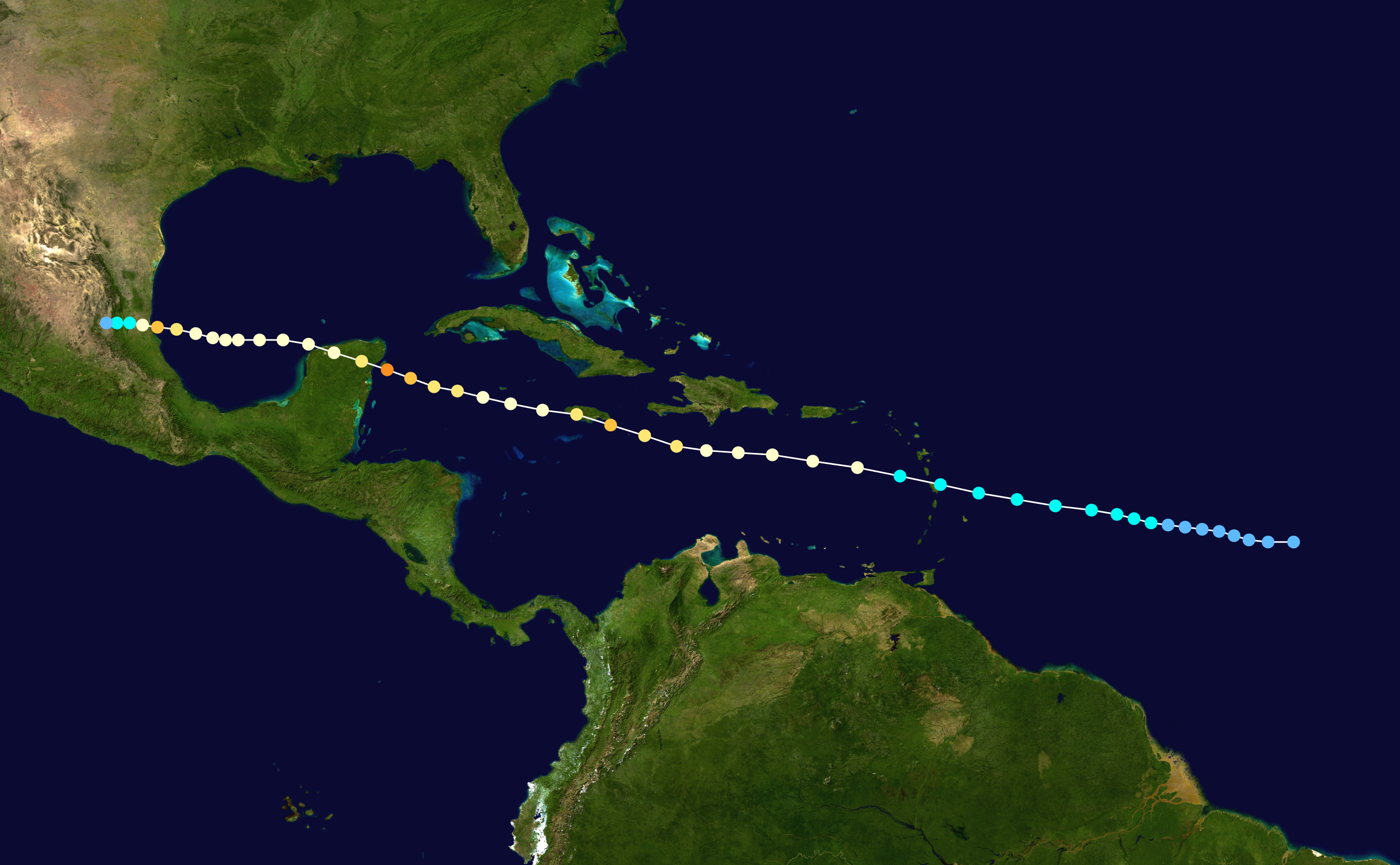 Track map of Hurricane Charlie of the 1951 Atlantic hurricane season. The points show the location of the storm at 6-hour intervals. The colour represents the storm's maximum sustained wind speeds as classified in the Saffir–Simpson scale (see below), and the shape of the data points represent the nature of the storm, according to the legend below. Saffir–Simpson scale Tropical depression≤38 mph≤62 km/h Category 3111–129 mph178–208 km/h Tropical storm39–73 mph63–118 km/h Category 4130–156 mph209–251 km/h Category 174–95 mph119–153 km/h Category 5≥157 mph≥252 km/h Category 296–110 mph154–177 km/h Unknown Storm type Tropical cyclone Subtropical cyclone Extratropical cyclone / Remnant low / Tropical disturbance